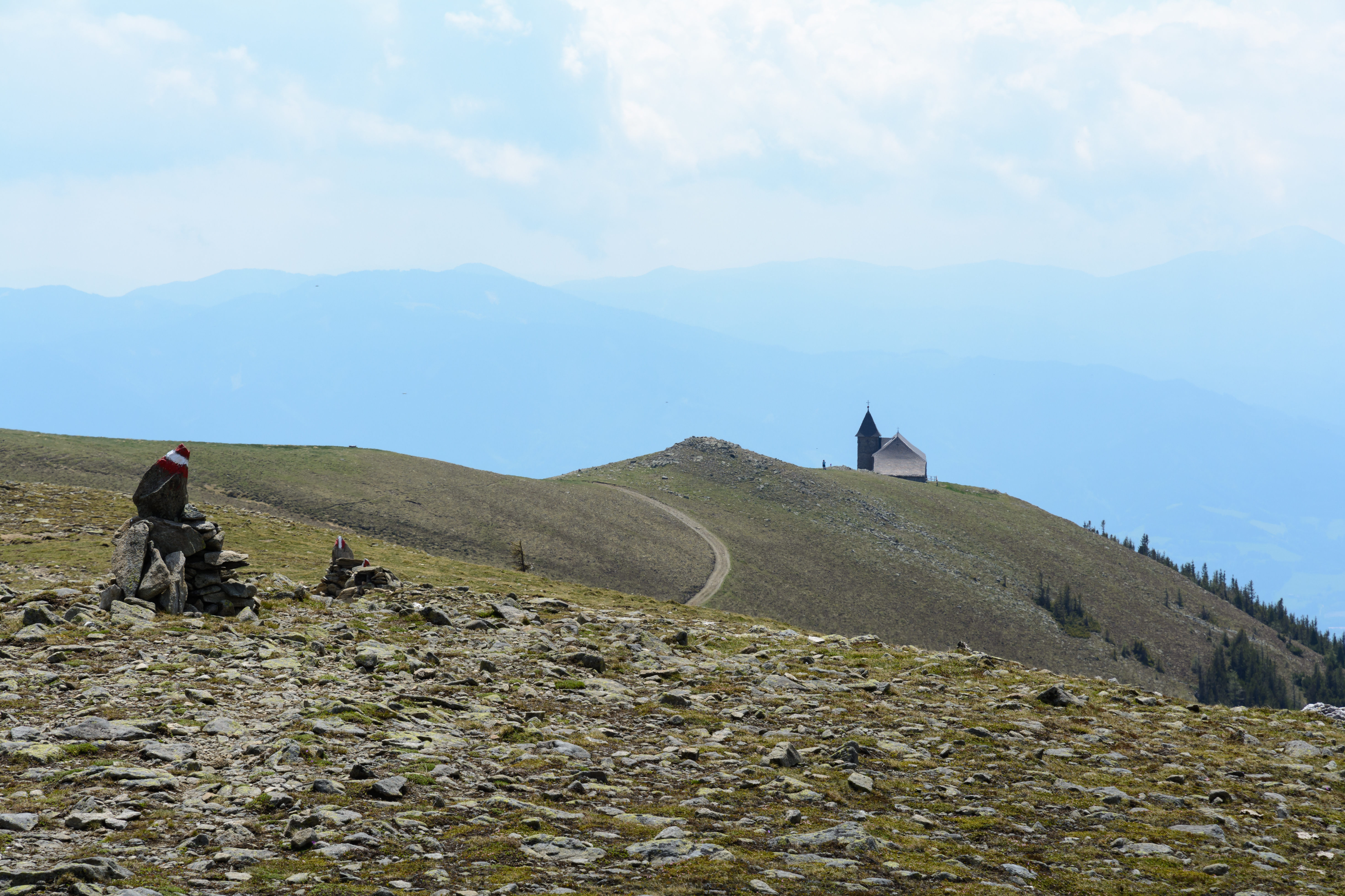 The Hochalm with Maria Schnee pilgrimage church near Seckau, Styria, Austria